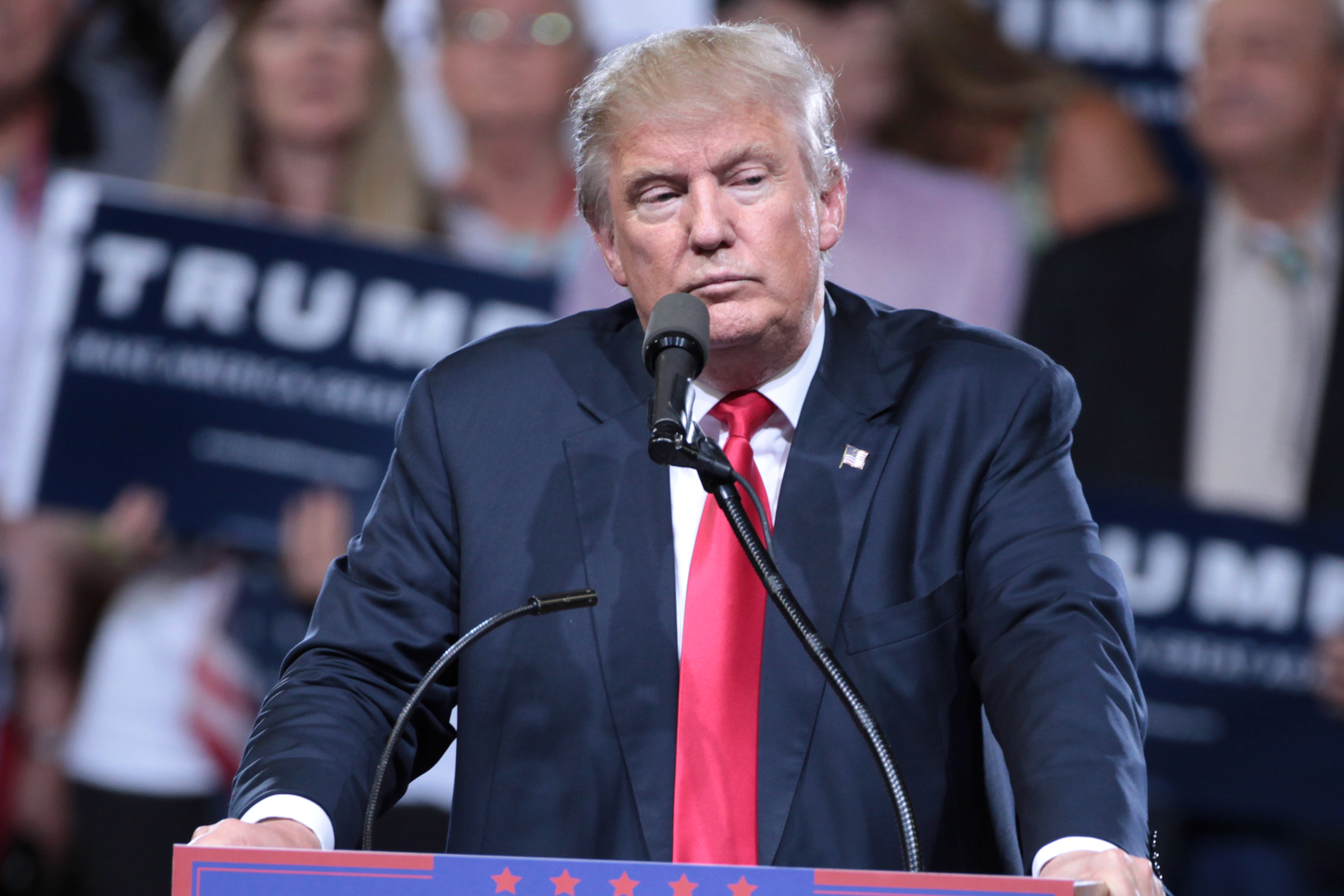 Donald Trump speaking with supporters at a campaign rally at Veterans Memorial Coliseum at the Arizona State Fairgrounds in Phoenix, Arizona.